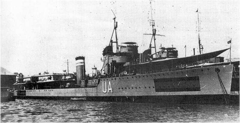 Destroyer Ulloa (UA) or (UL), Churruca II class (1933).